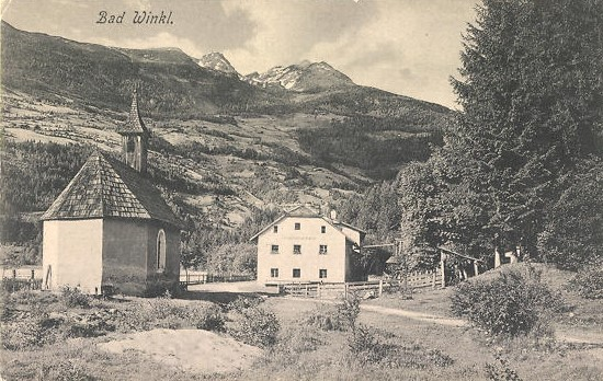 The Bad Winkel (Winkl) guesthouse in Kematen-Sand in Taufers with the Johann Nepomuk chapel in 1905, in the background Ahornach and the Moosstock mountain